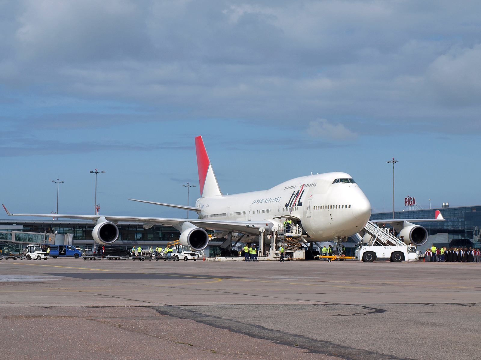 JAL Boeing 747 at Riga International Airport